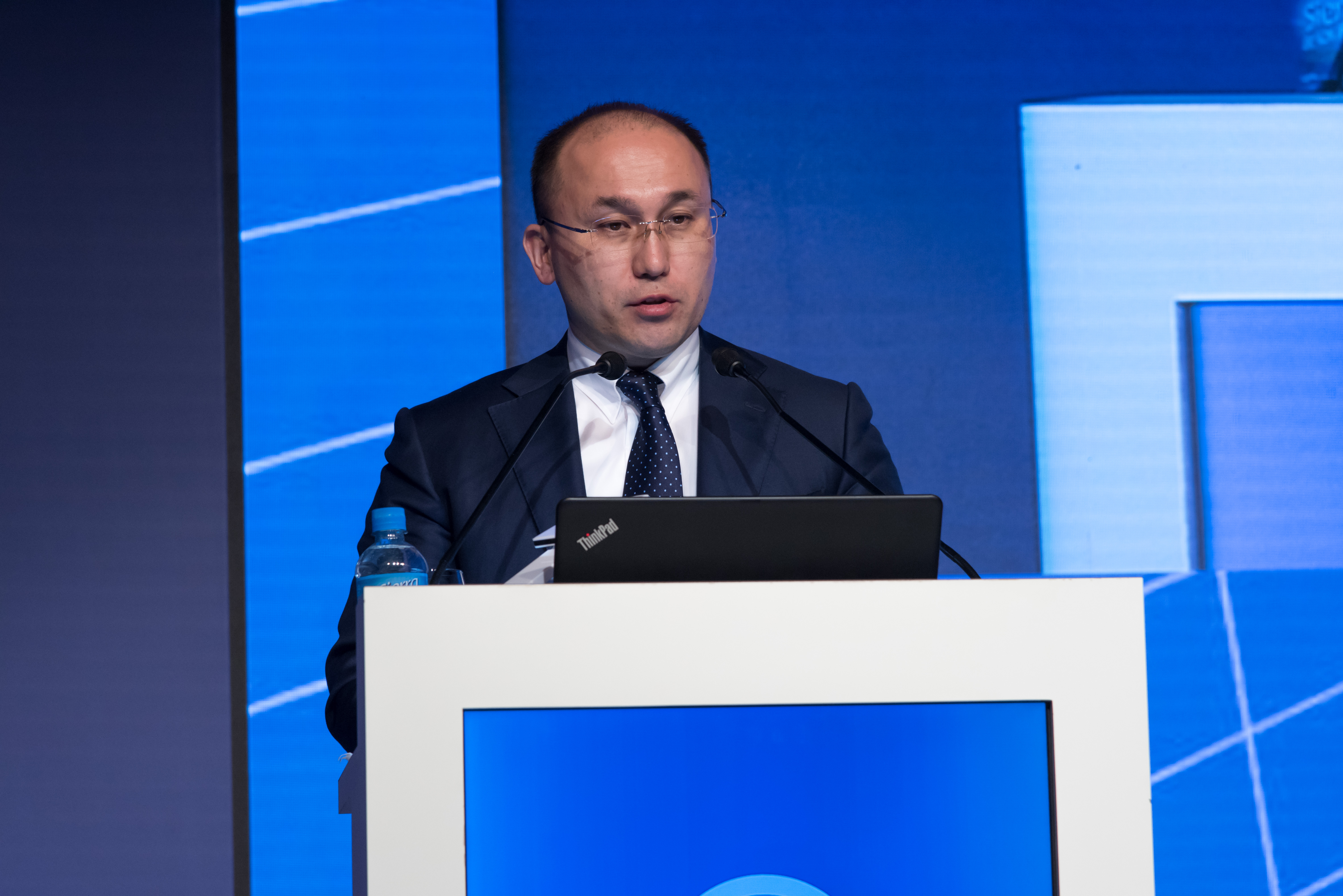 WTDC-17 High-level segment H.E. Mr Dauren Abayev Minister of Information and Communication Kazakhstan © ITU/E. DOMINGUEZ